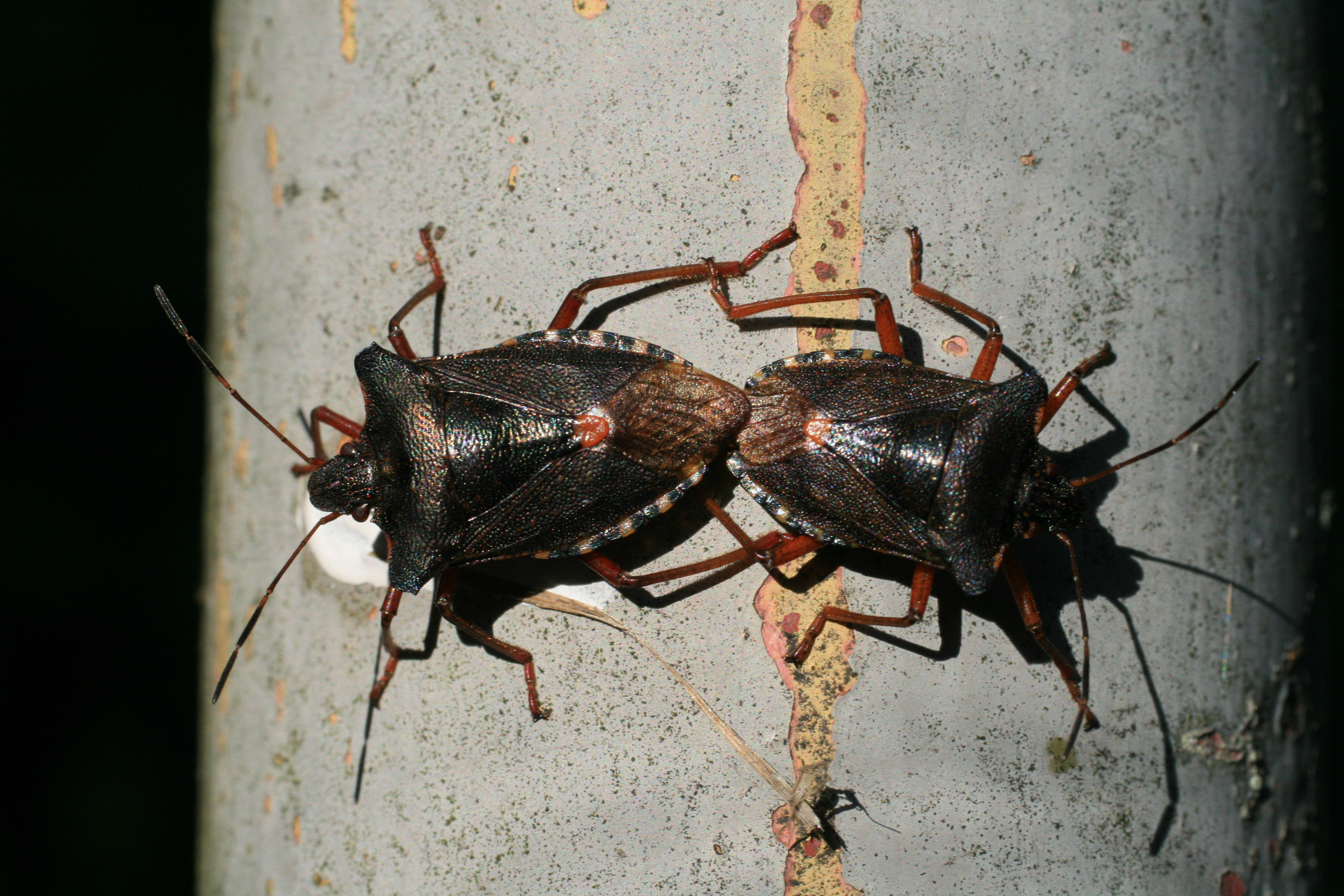 Mating stinkbugs